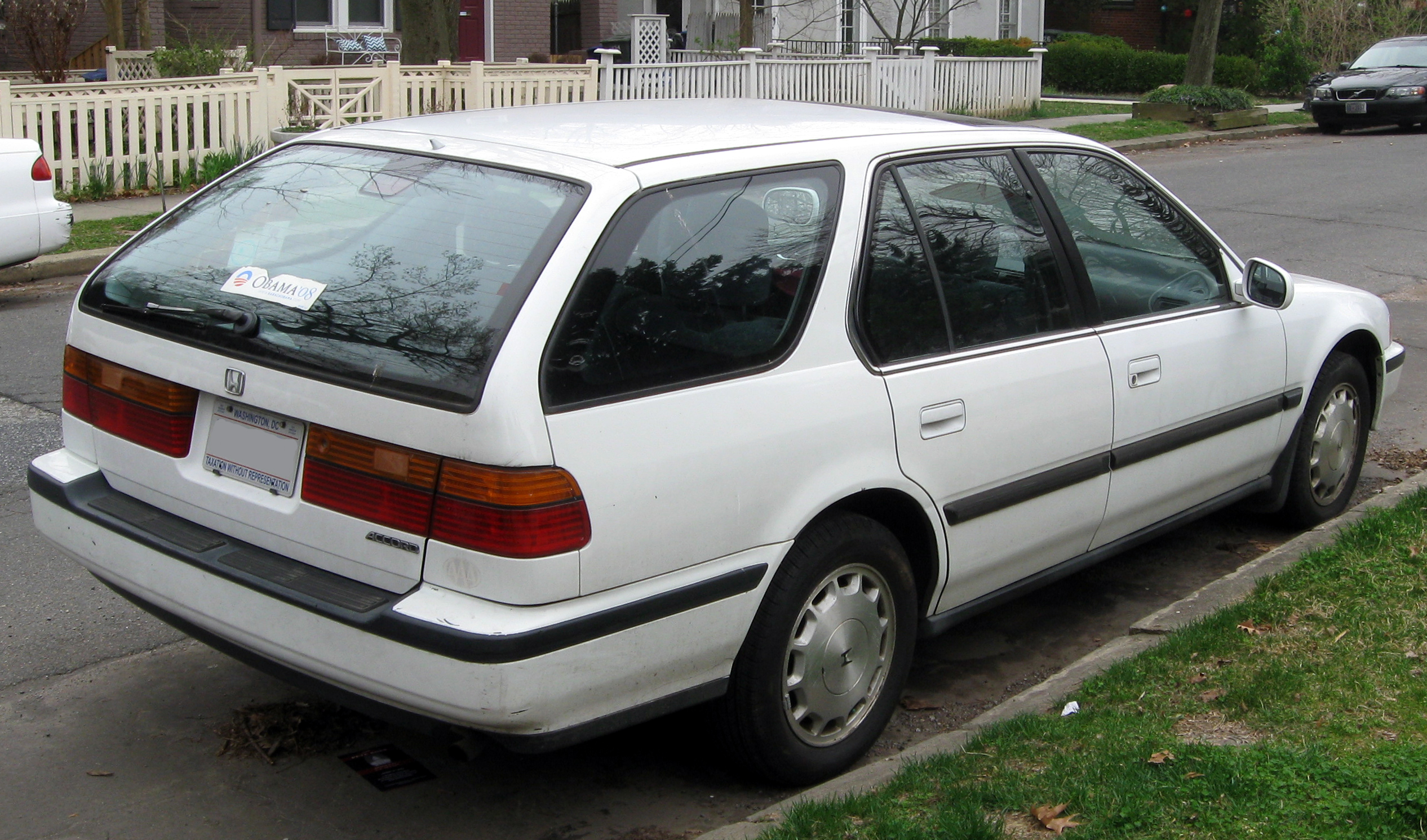 1992-1993 Honda Accord photographed in Washington, D.C., USA.